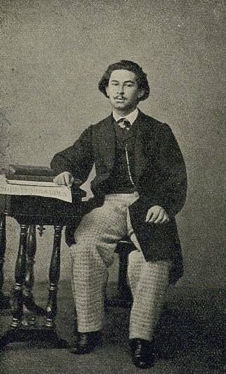 Nikolay Leykin